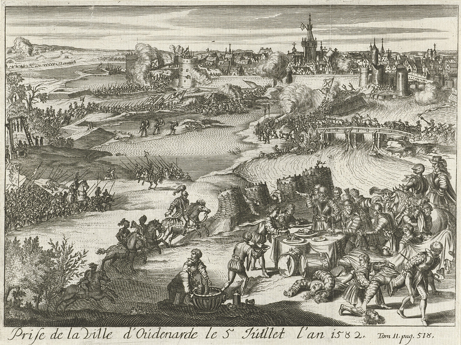 5 july 1582 nothing happened ith Parma, he's eating while his fellow eaters being killed by gunshot